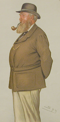 Caricature of Thomas Coke, 2nd Earl of Leicester (1822-1909). Caption read "Agriculture".